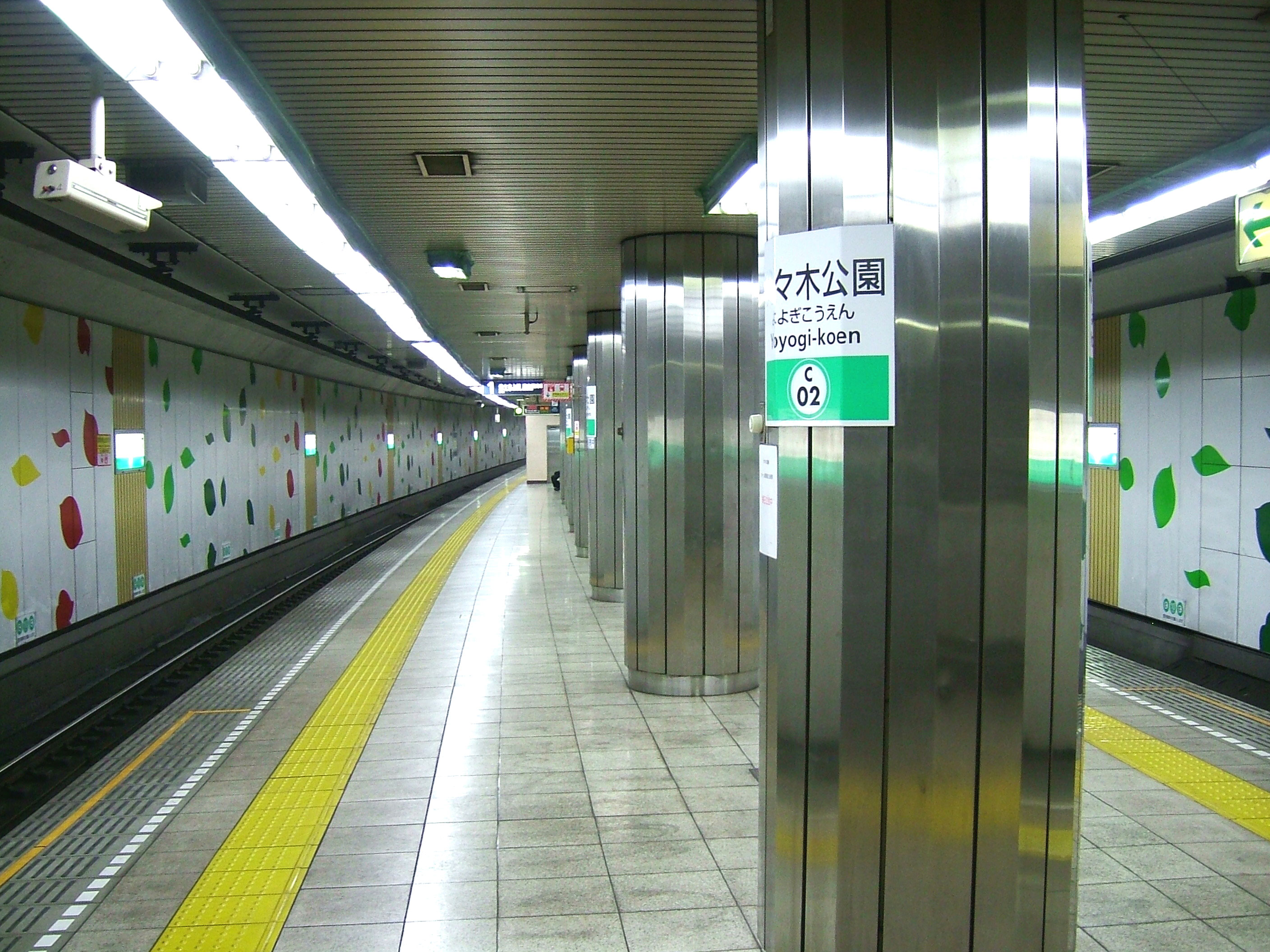 Yoyogi-Kōen Station platform (Tokyo Metro Chiyoda Line)